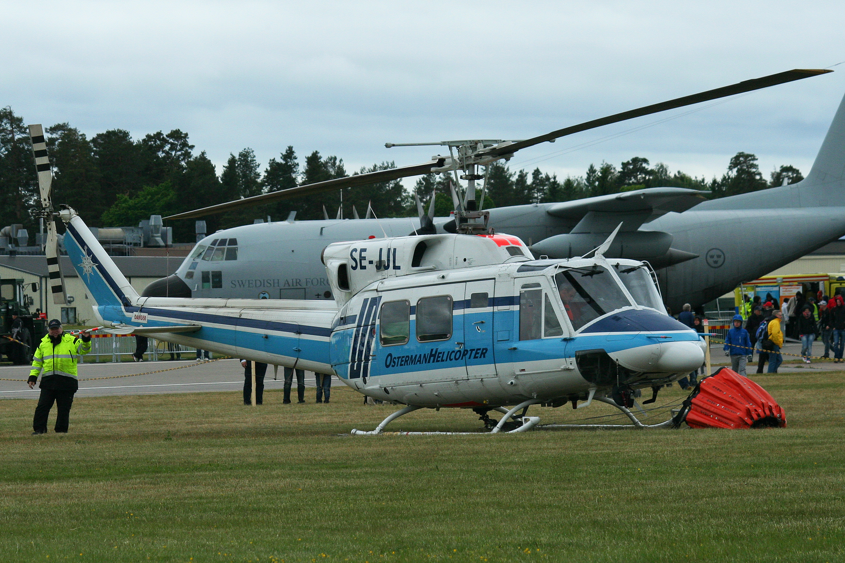 Operated by Osterman Helicopter. It was previously JA9562 with the Japanese Coast Guard. msn 31182. 2012 Malmen Airshow, Sweden. 03-06-2012